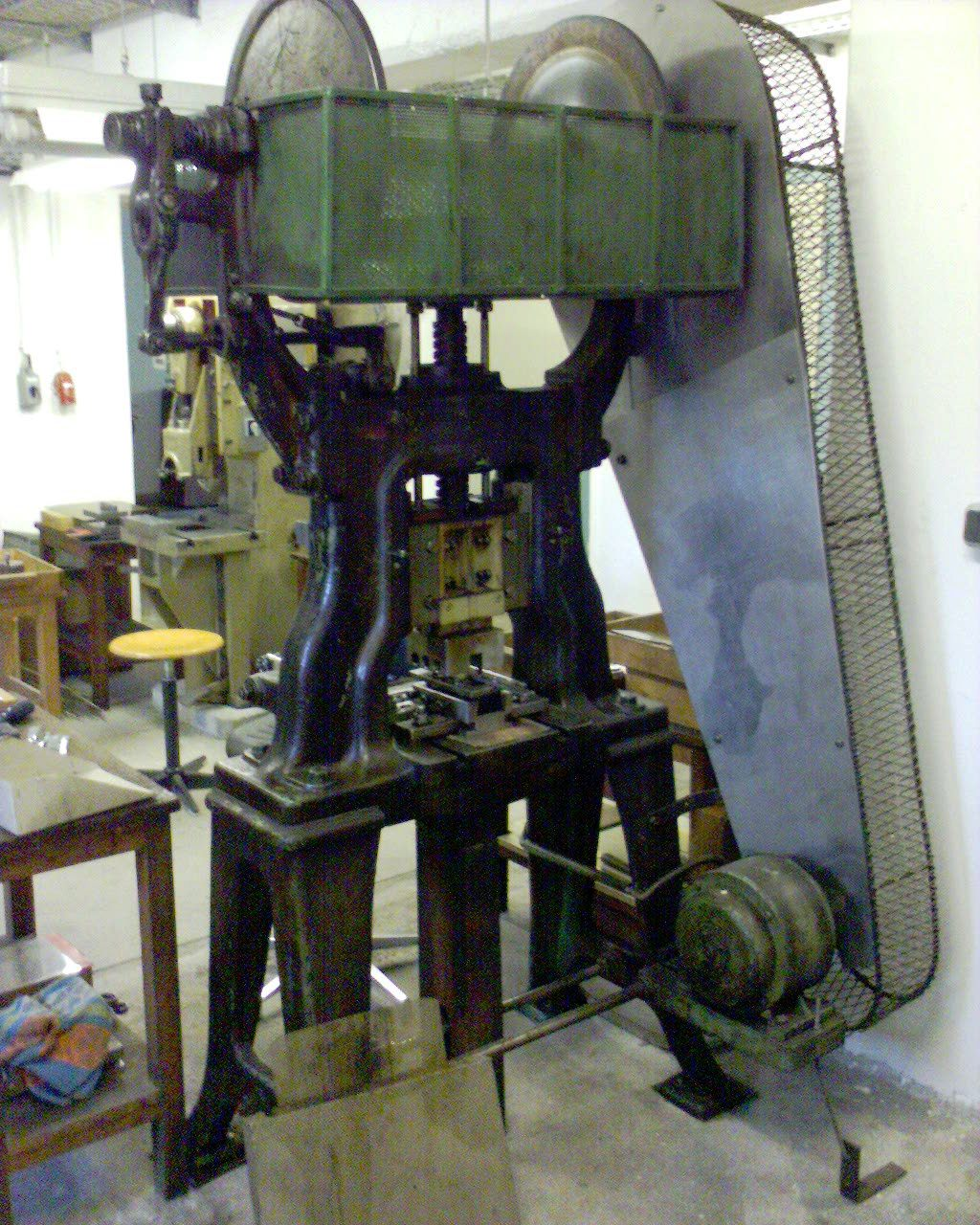 Frictional press